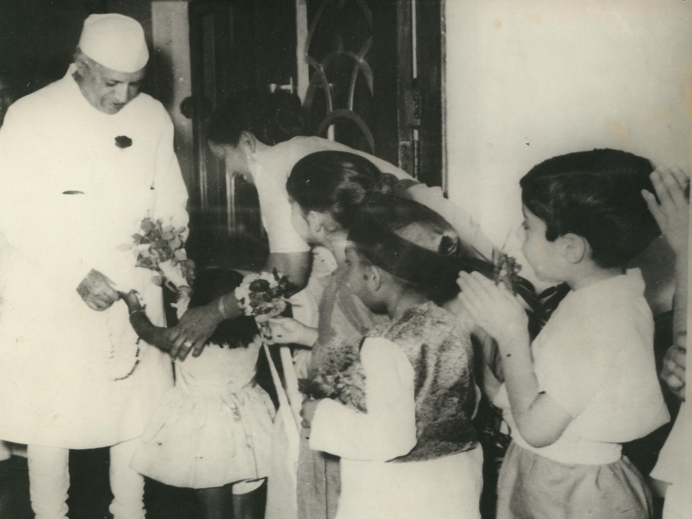 Jawaharlal Nehru with school children at St Peter's School(Erstwhile Benachity High School), Durgapur